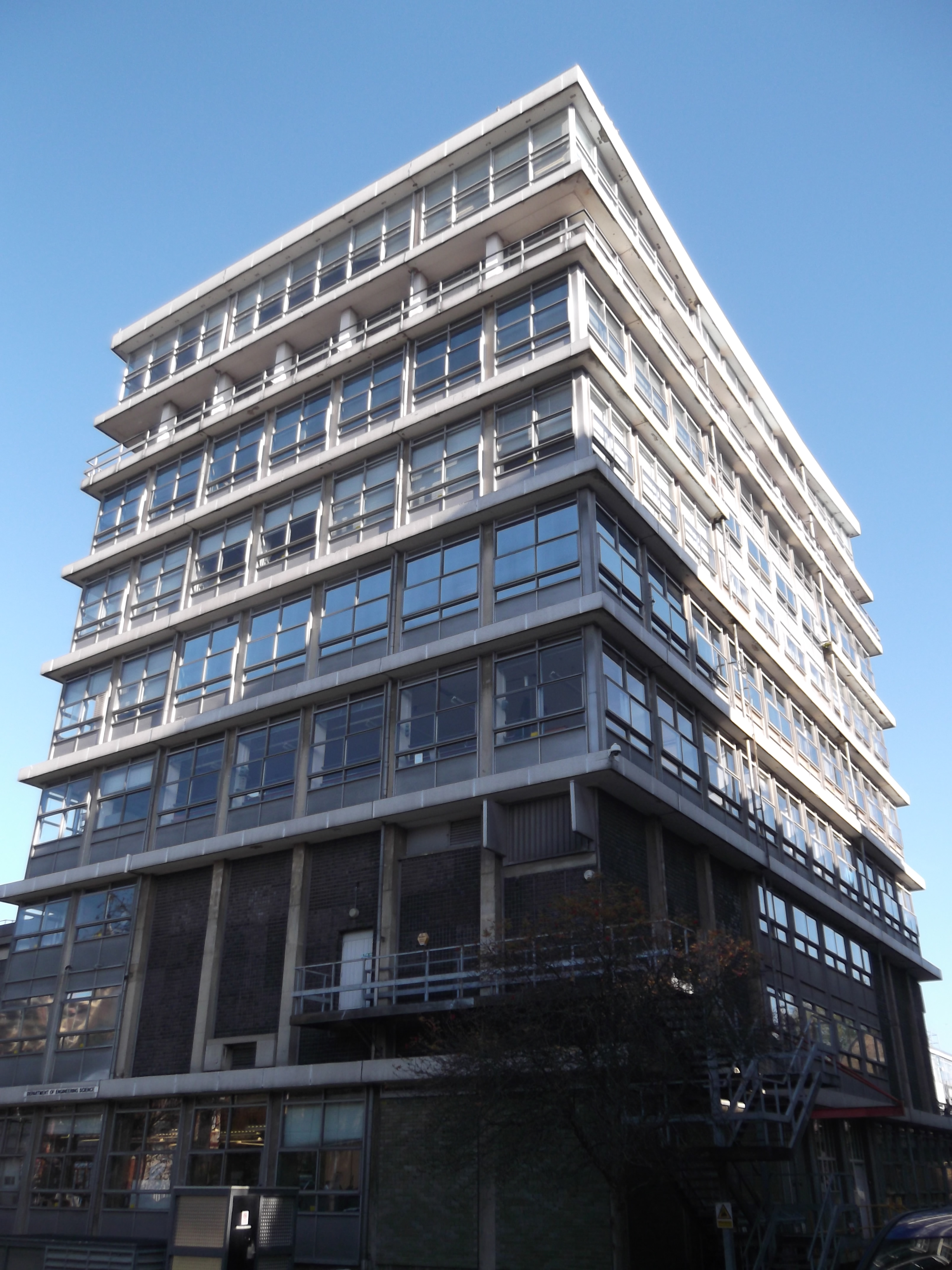 The Thom Building, Department of Engineering, University of Oxford, north Oxford, England.